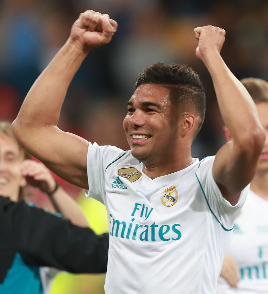 Casemiro